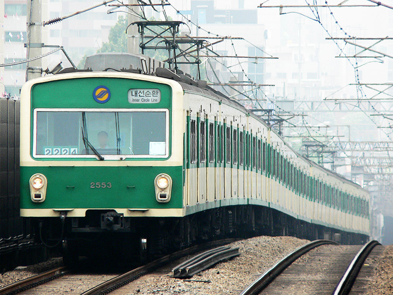 Seoul Subway Line2 MELCO-chopper Train